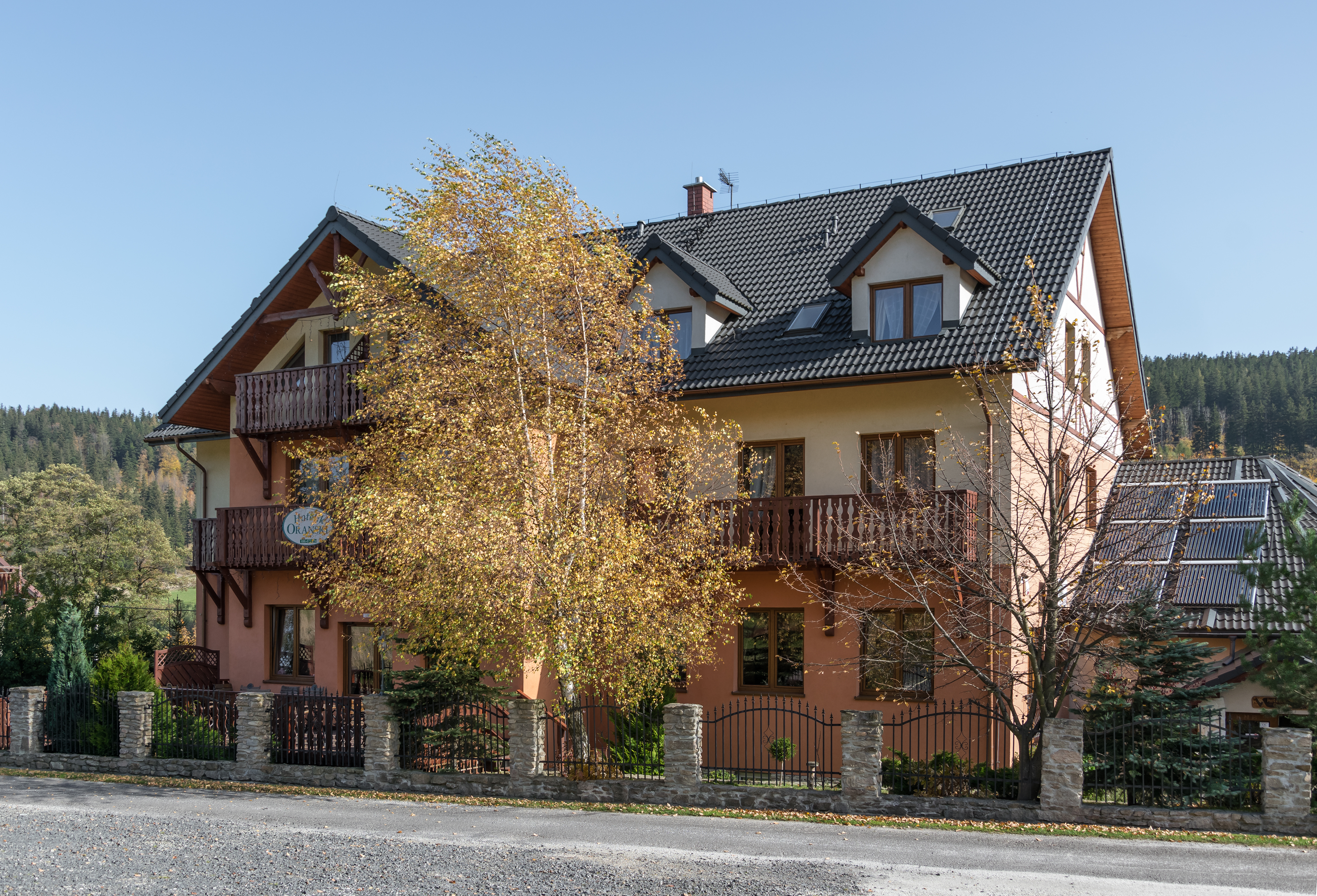 Hotelik Orański in Stara Morawa